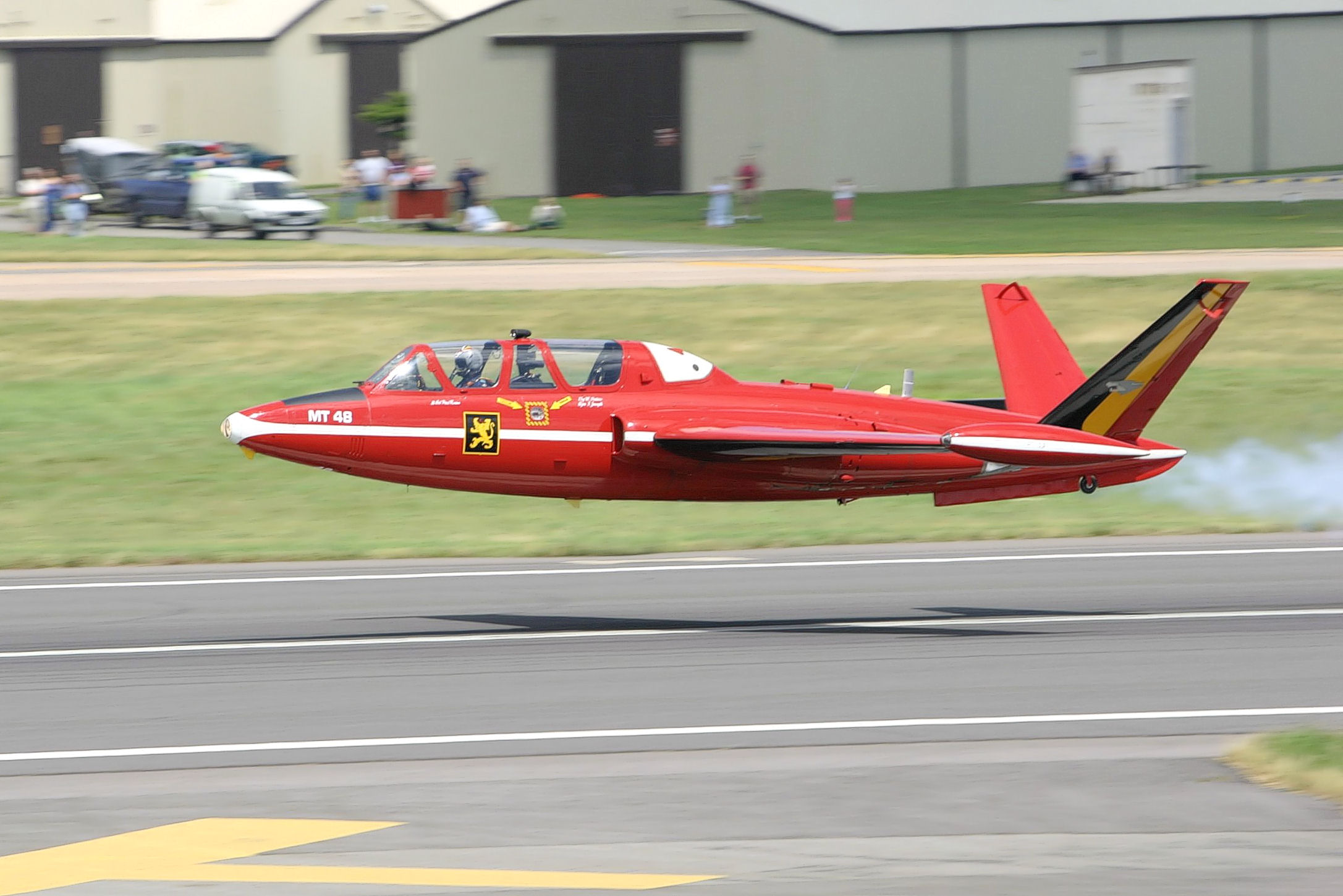 Taken during its trademark take-off at RIAT 2004